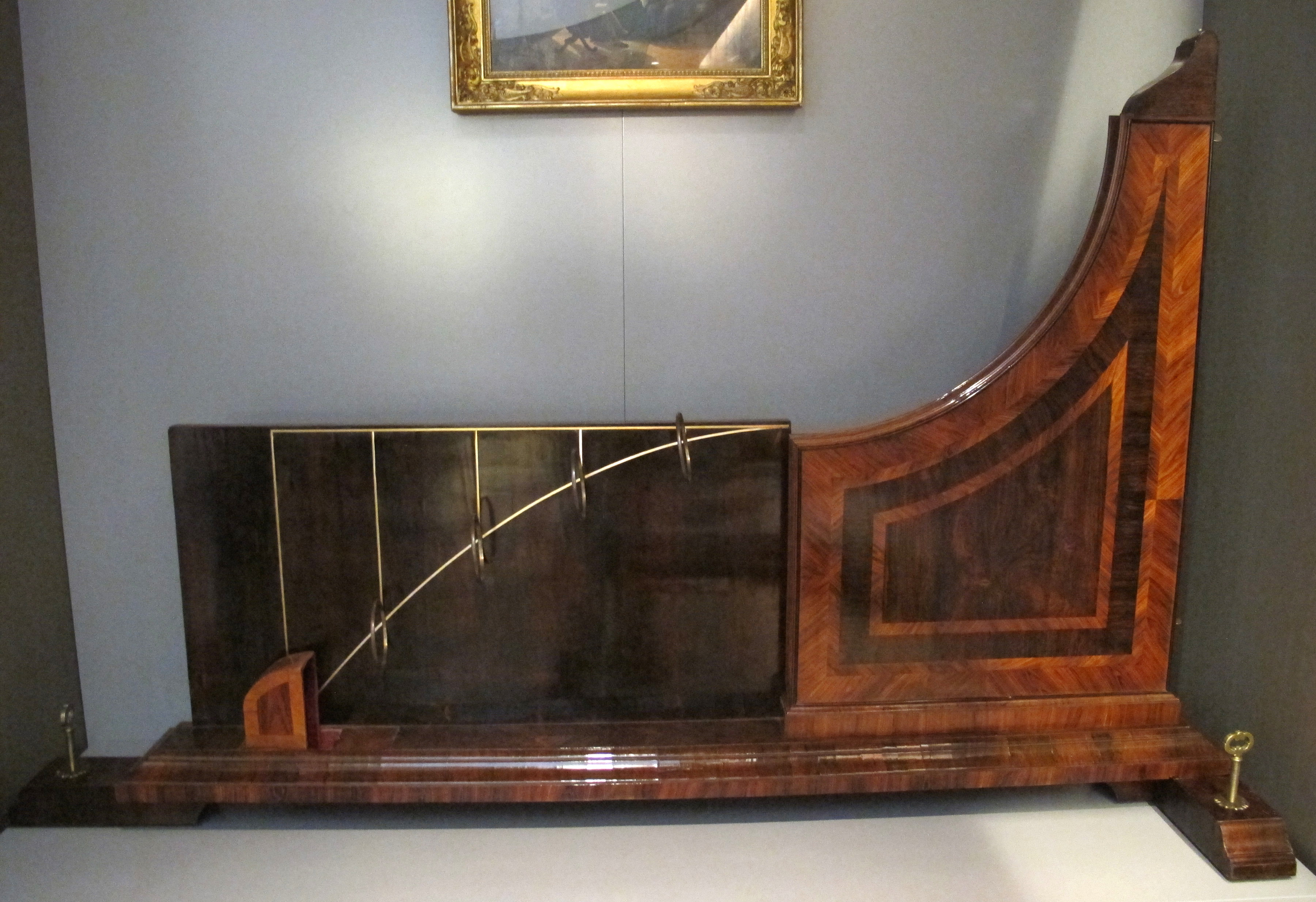 Apparatus to demonstrate the parabolic trajectory of projectiles.